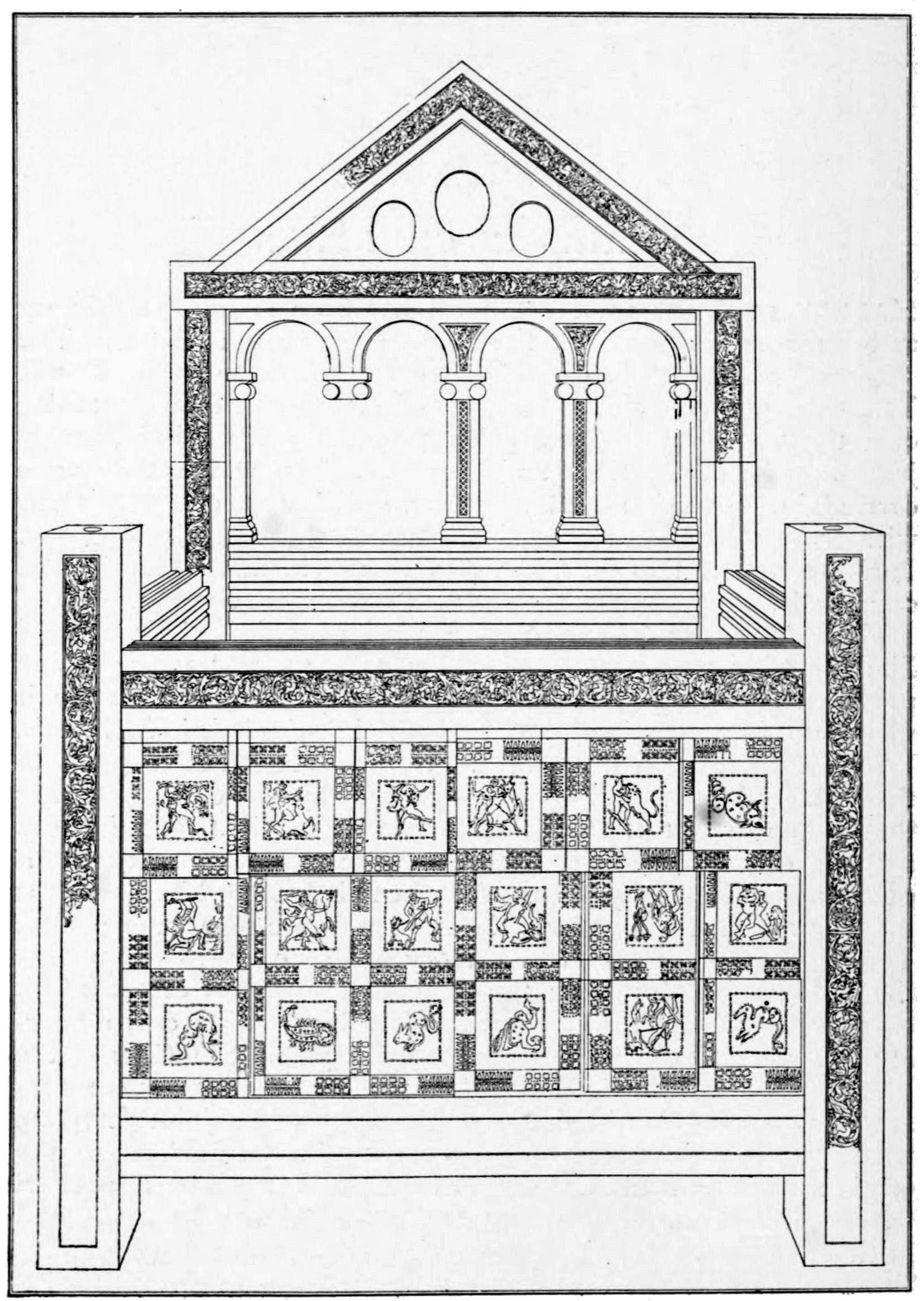 Pope's chair in St Peter's, Rome, last shown in 1867.